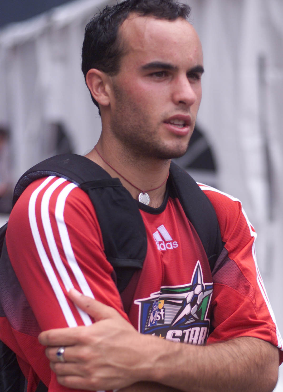 Landon Donovan, then of San Jose Earthquakes, at the 2004 Major League Soccer All-Star game.